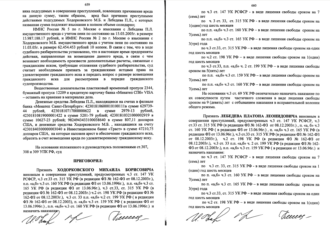 The page before the last one of the Meschansky court's sentence of May 16, 2005.